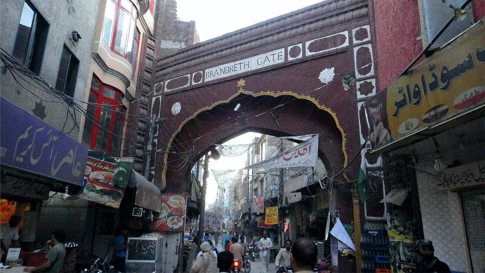 on G.T road Gujranwala.